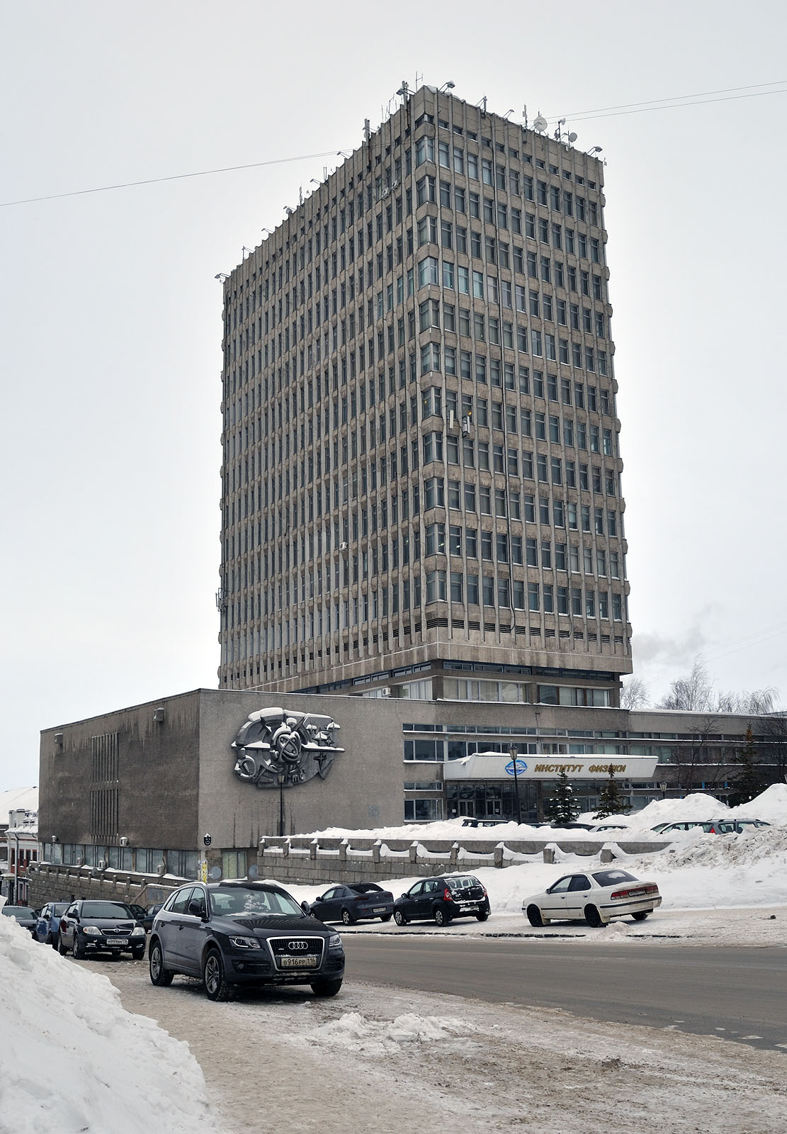 KFU physics institute Татарча/tatarça: QFU fizika instituti